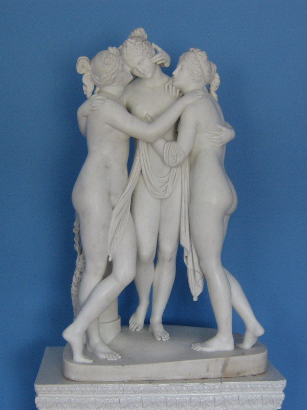 Three graces statue